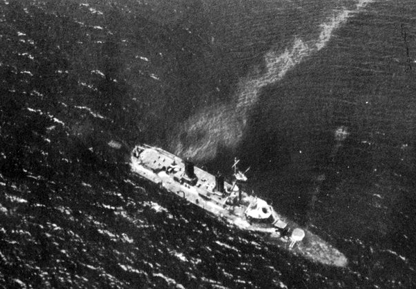 Aerial view of the sunken Japanese submarine tender Jingei. On 19 September 1944, she had been was torpedoed 80 miles northwest of Naha by the submarine USS Scabbardfish (SS-397) and was towed to Okinawa and beached northwest of Naha. On 10 October 1944, the immobile ship was attacked by U.S. Navy aircraft of Task Force 38 launched from the aircraft carrier USS Hancock (CV-19) and sank in shallow waters.